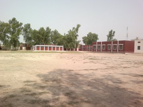 A picture of Govt Boys High School Mankera, Bhakkar